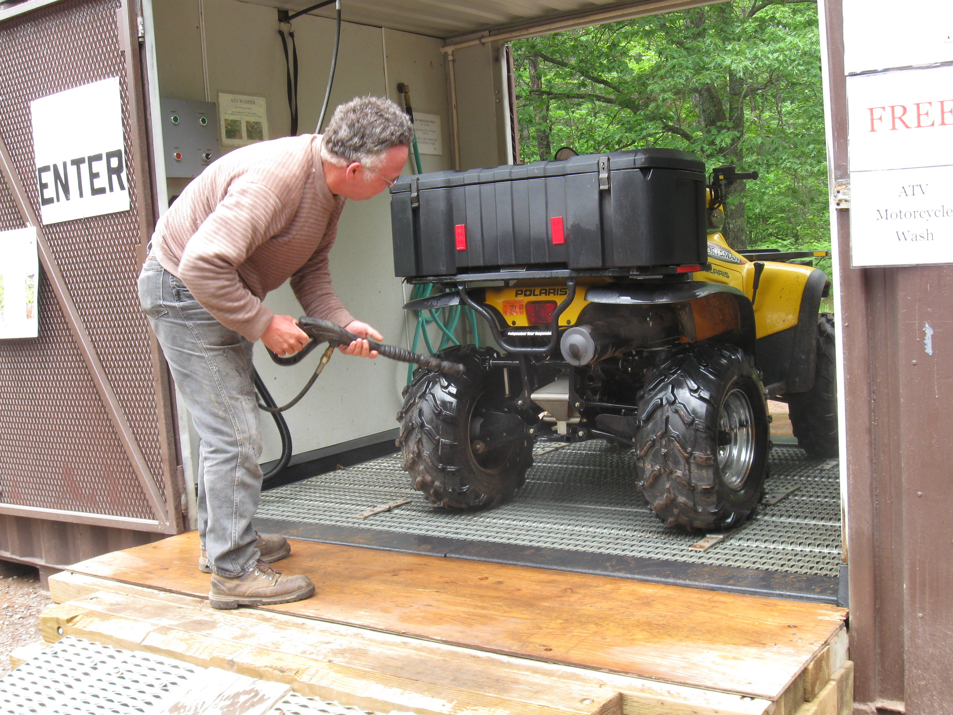 ATV rider using power wash station to clean his vehicle for a trail ride, to prevent the spread of invasive species from all-terrain vehicles.